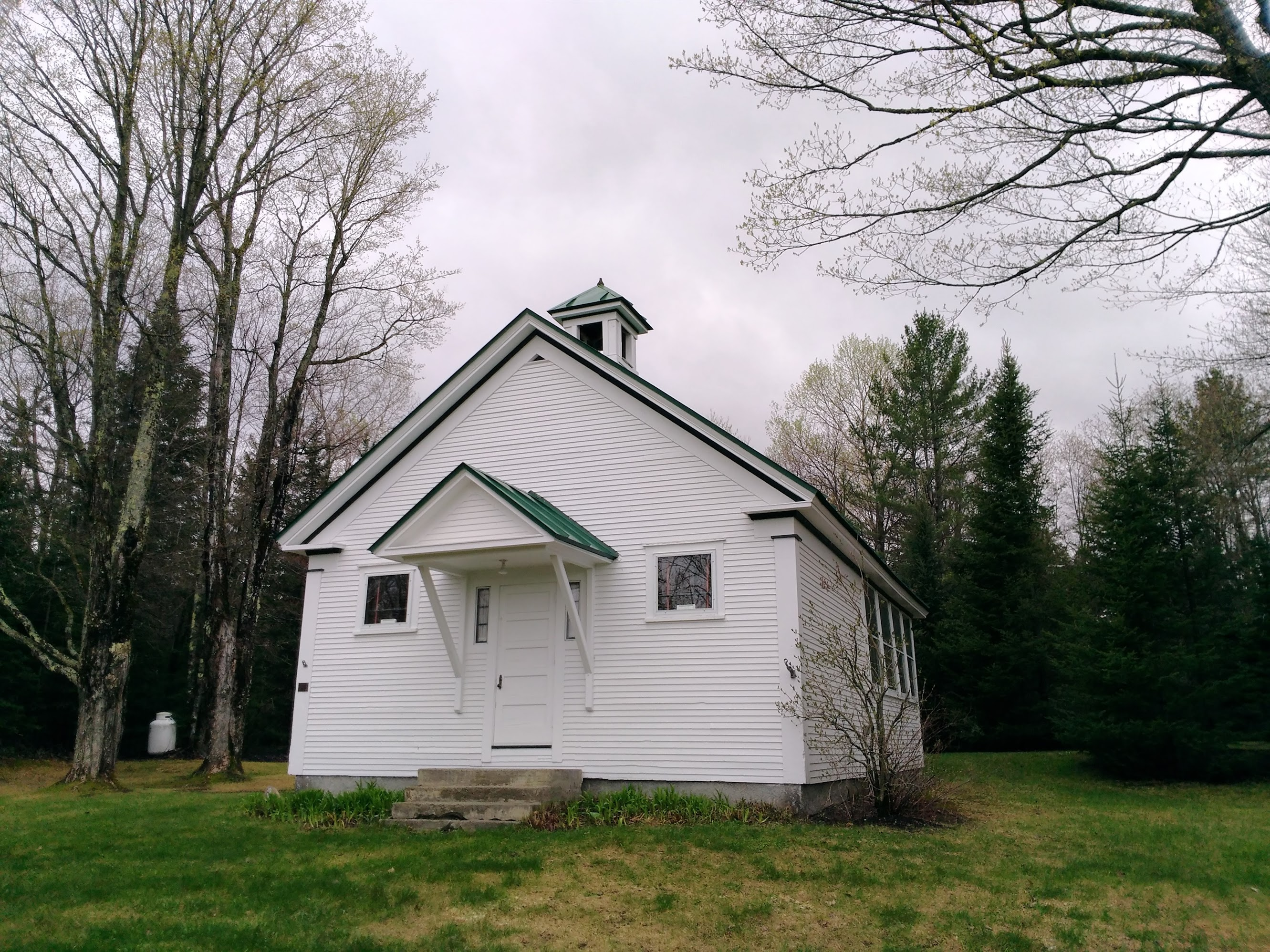 Front angle of building